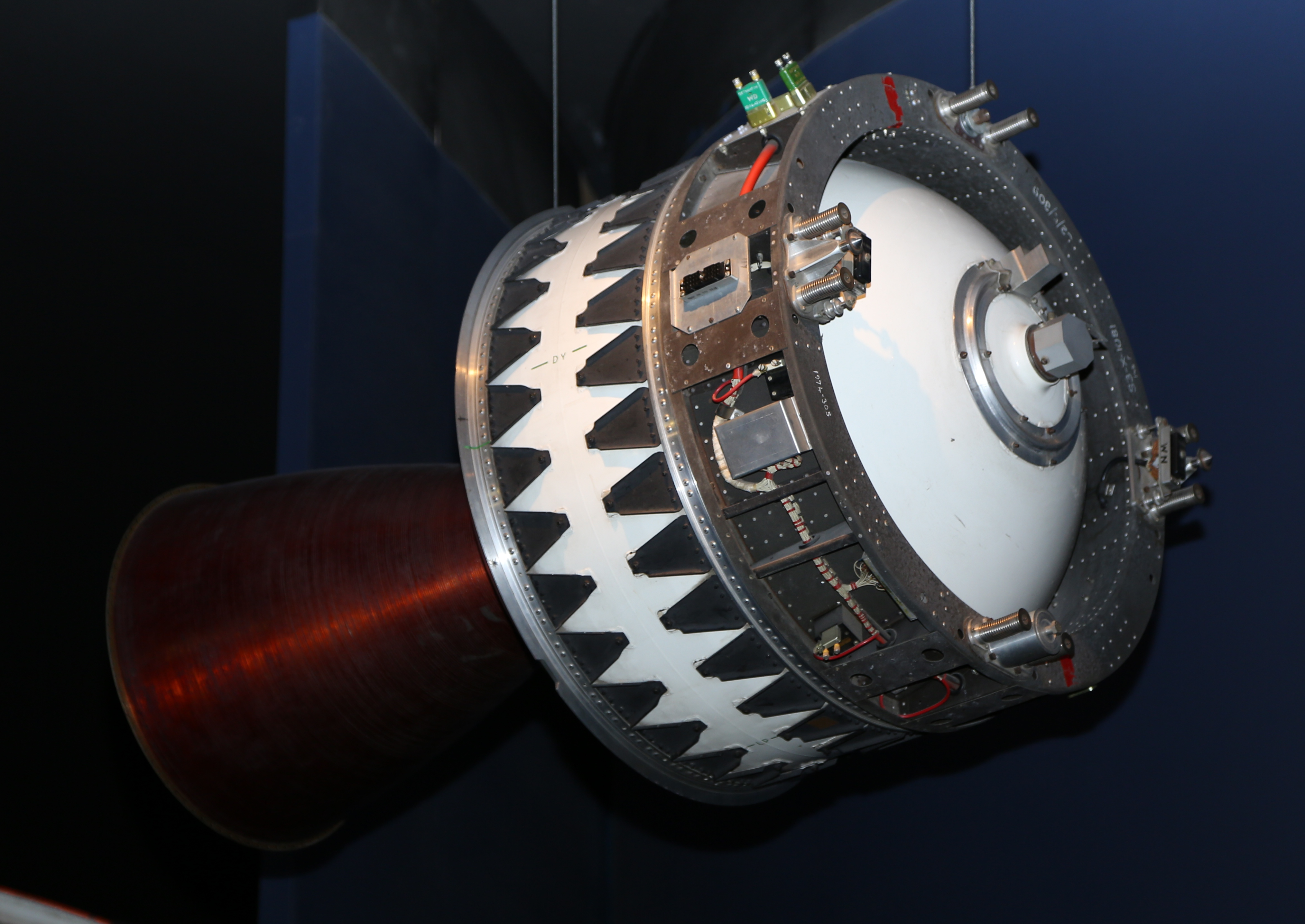 Photo of a Waxwing rocket motor on display at the London science museum.